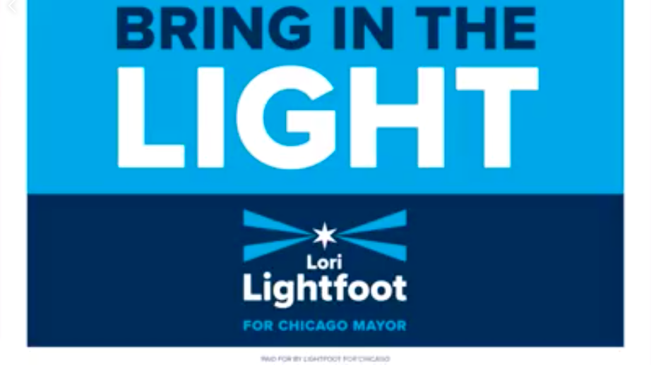 Bring In The Light (Lori Lightfoot)